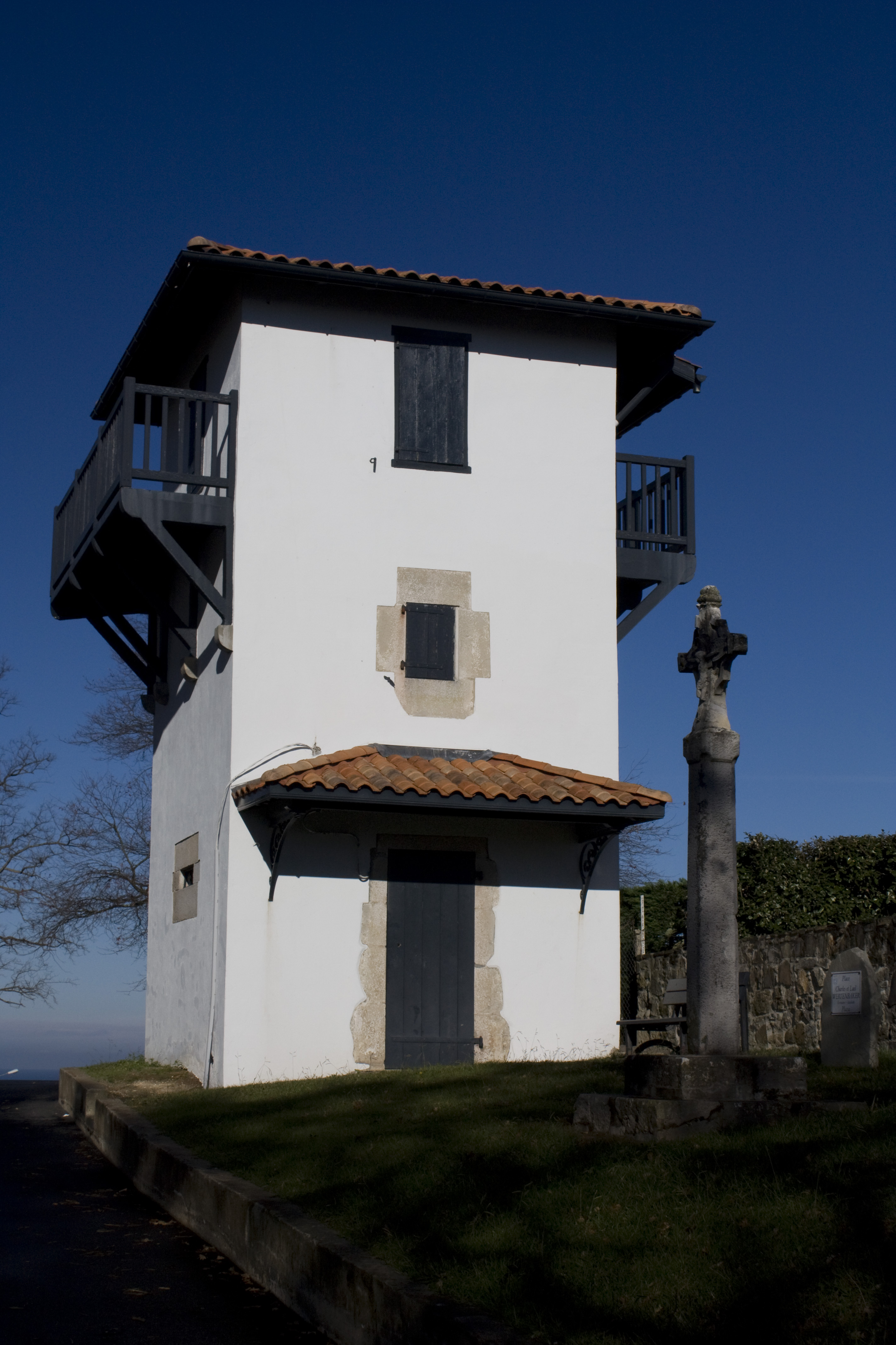 Watchtower.